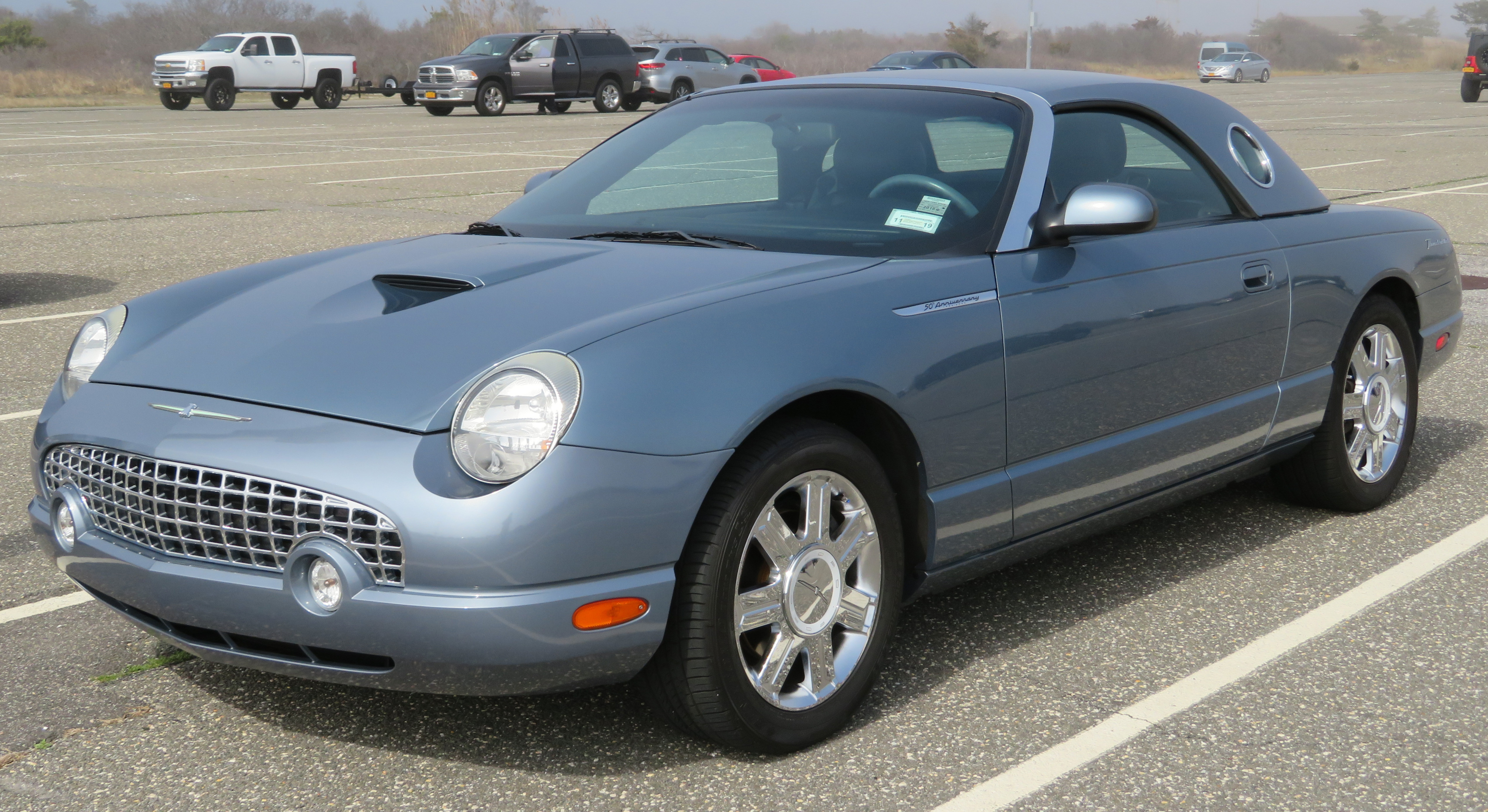 In Long Island, New York